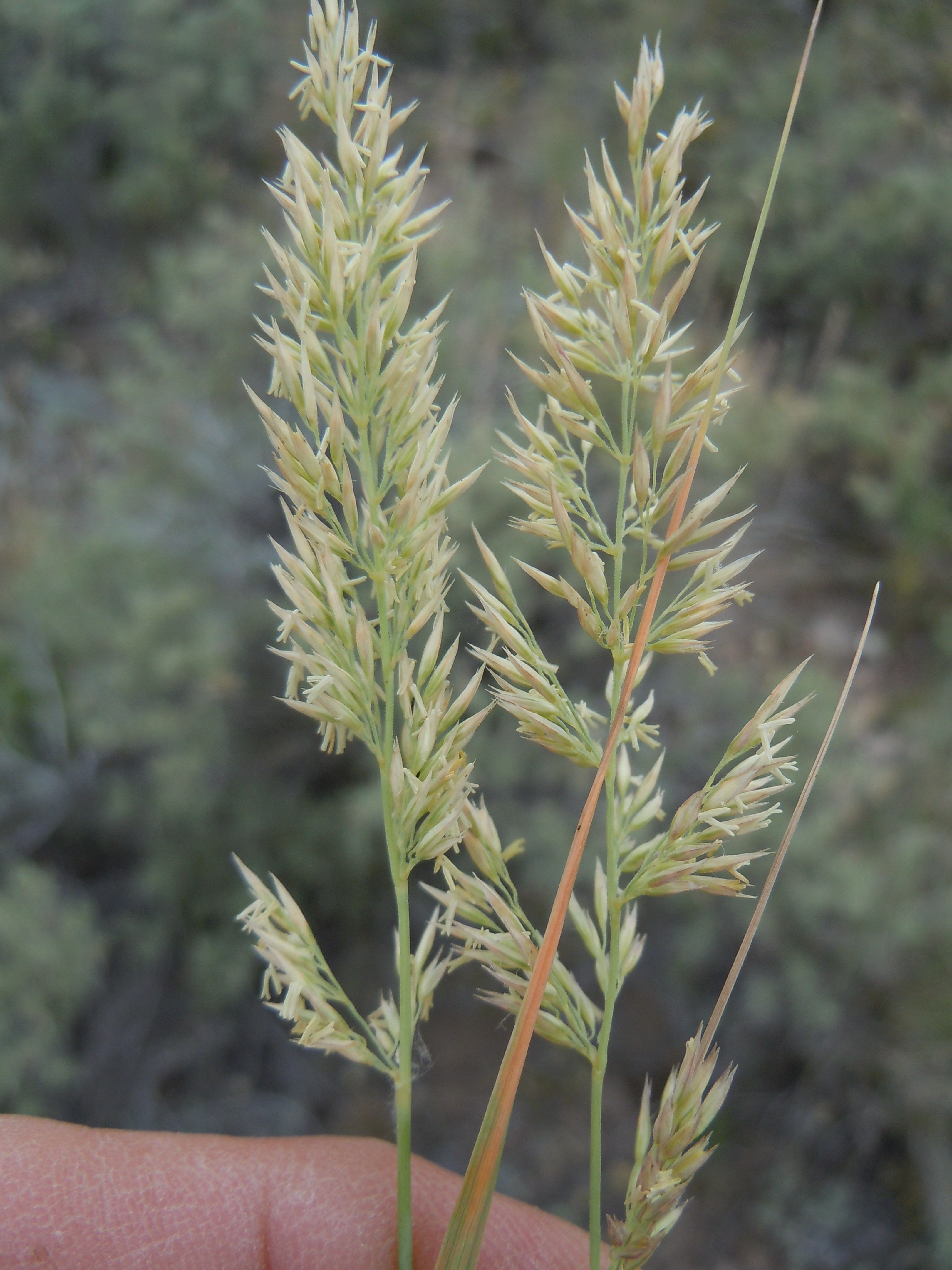 Calamagrostis montanensis in Beaverhead County, Montana, USA